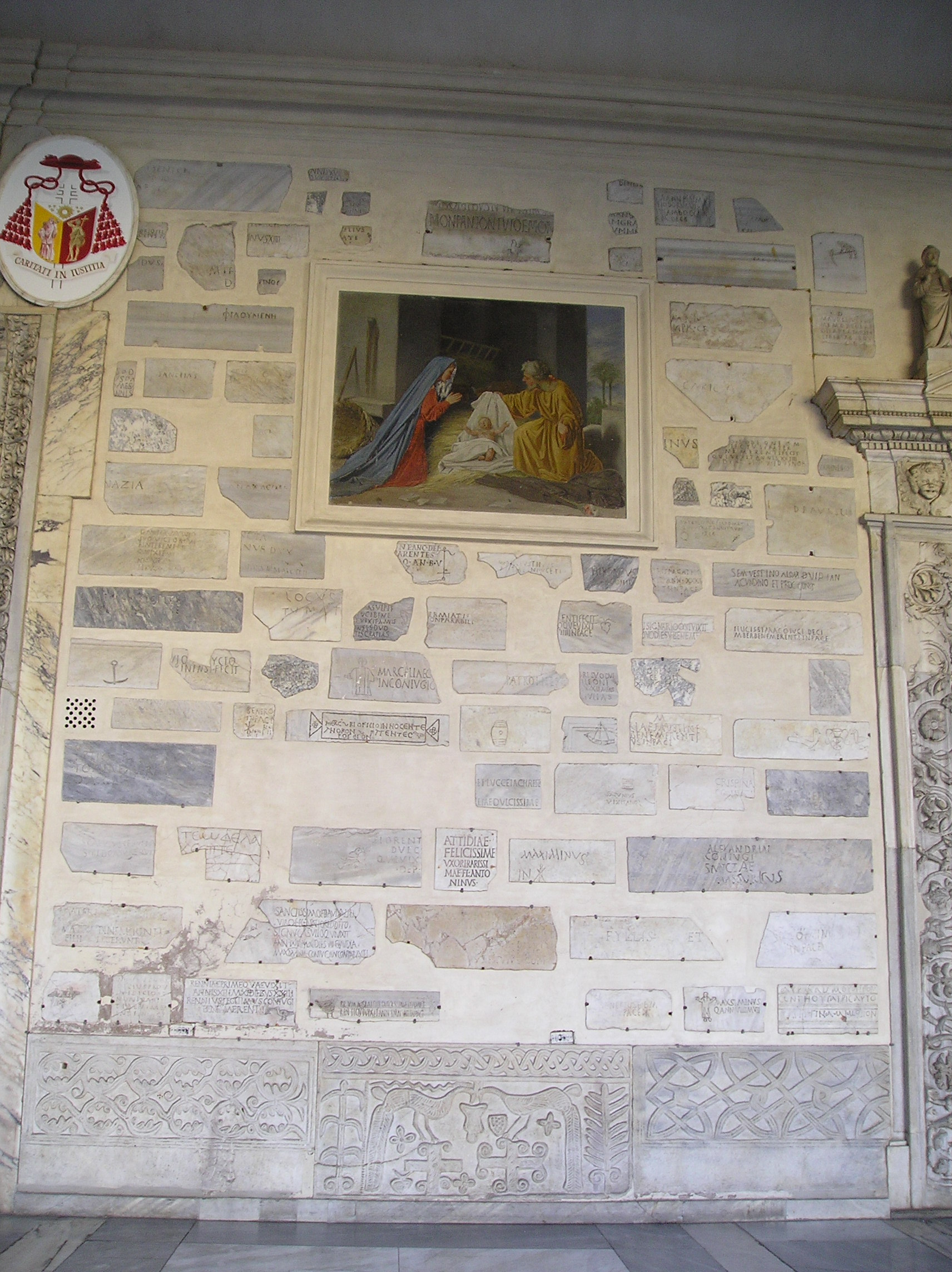 Santa Maria in Trastevere, a church in Rome.